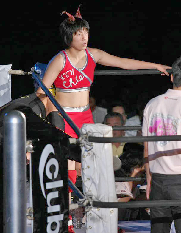 A Japanese female professional wrestler \(^o^)/ Chie (pronounced "Banzai Chie") at the Hustle.